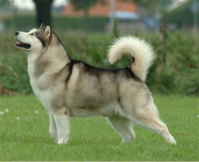 Alaskan Malamute Ch.Windchaser's The Seventh Son